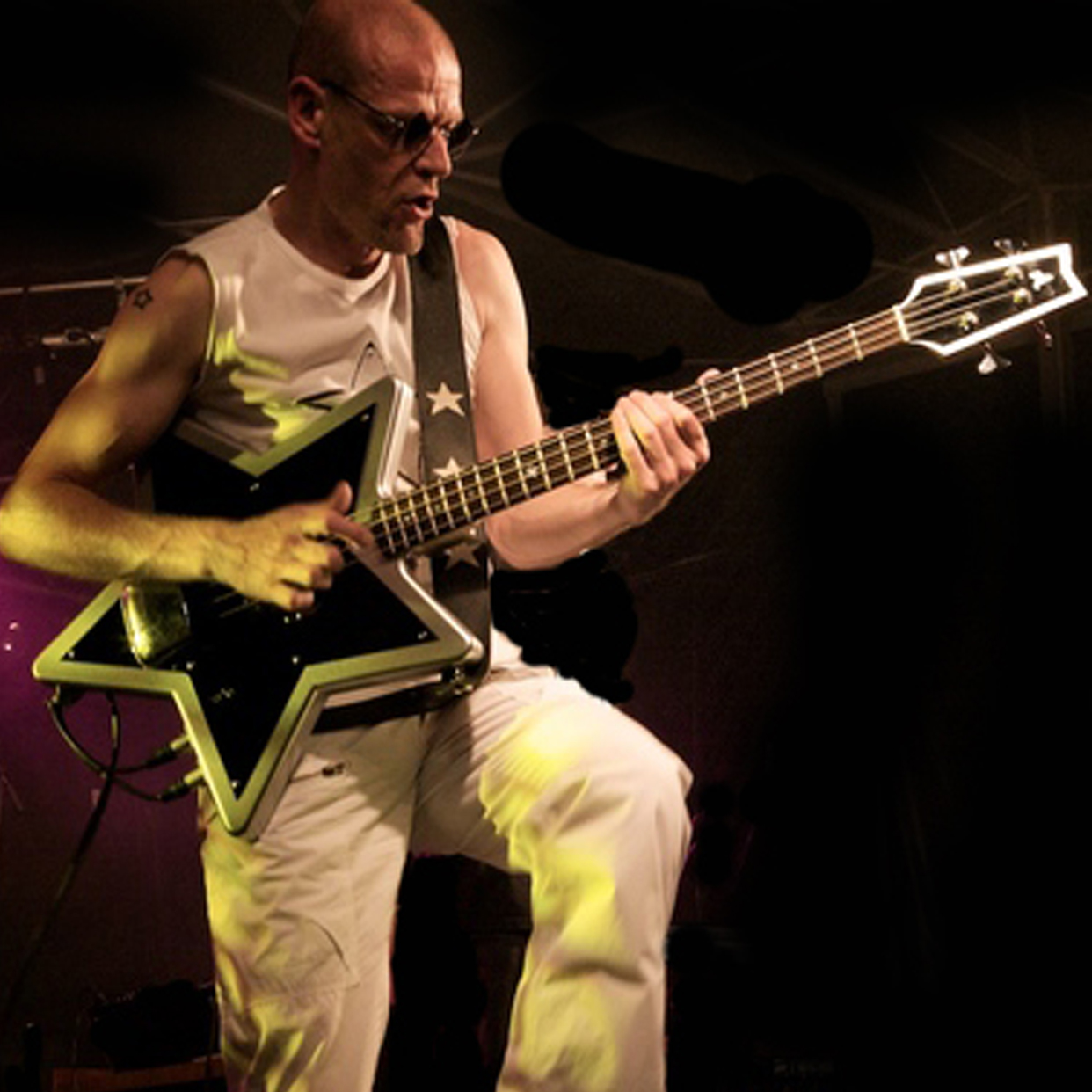 Seven Eleven bassist Dodge